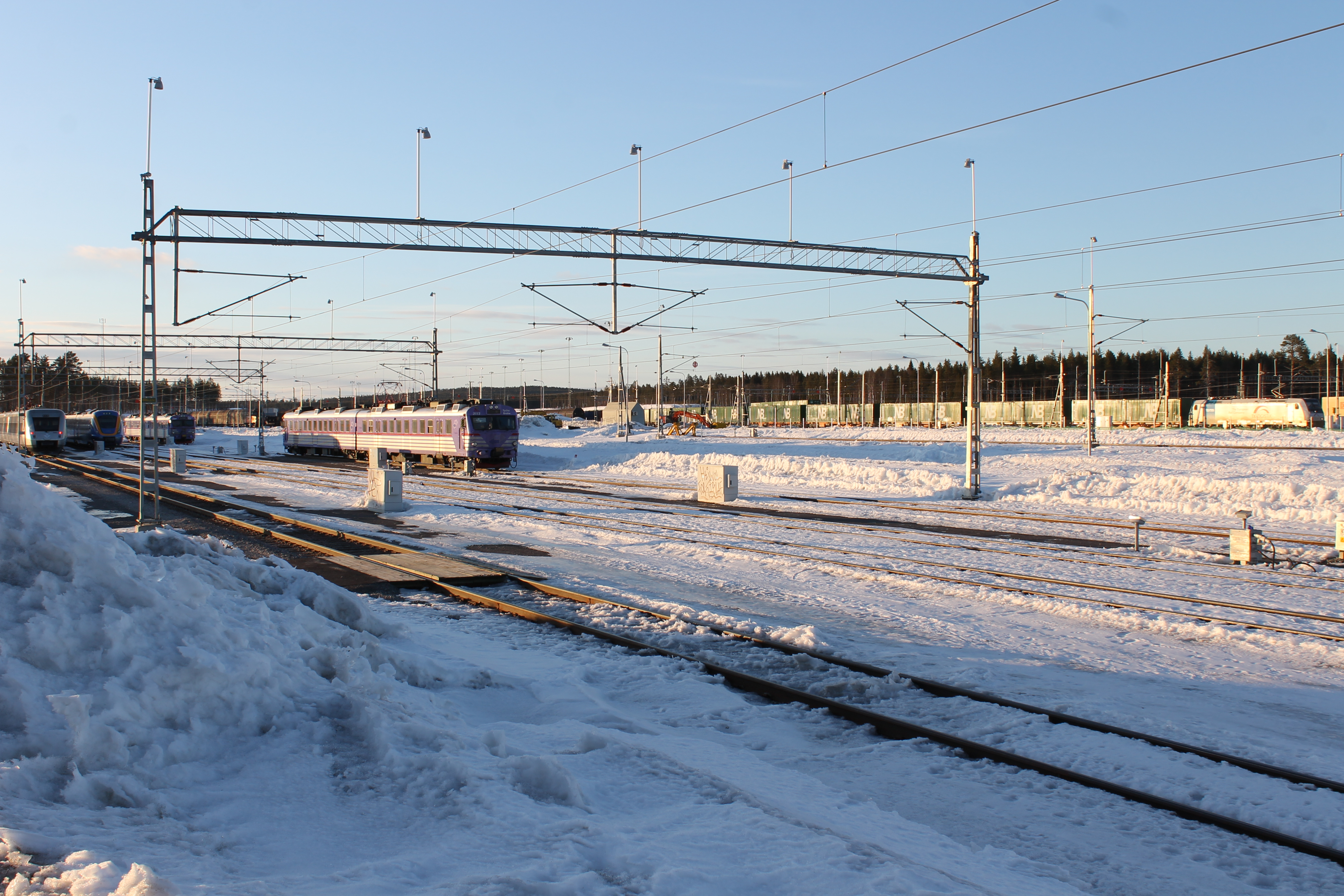 Umeå Rail Yard